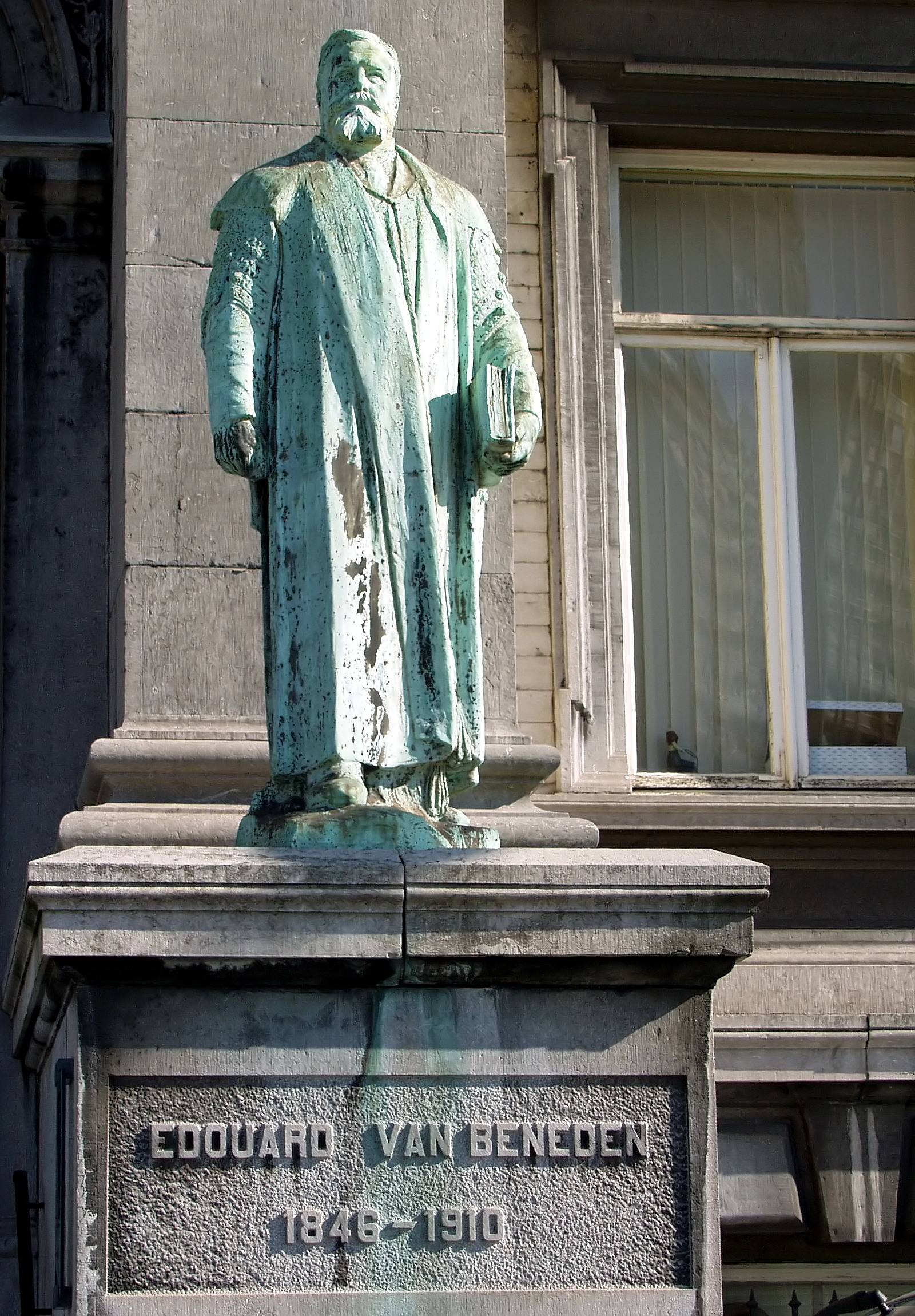 Statue of Édouard van Beneden in front of the “Aquarium et musée de zoologie”, Liège, Belgium, inaugurated 1920. Sculptor: Pierre? Braeke (1859-1938)